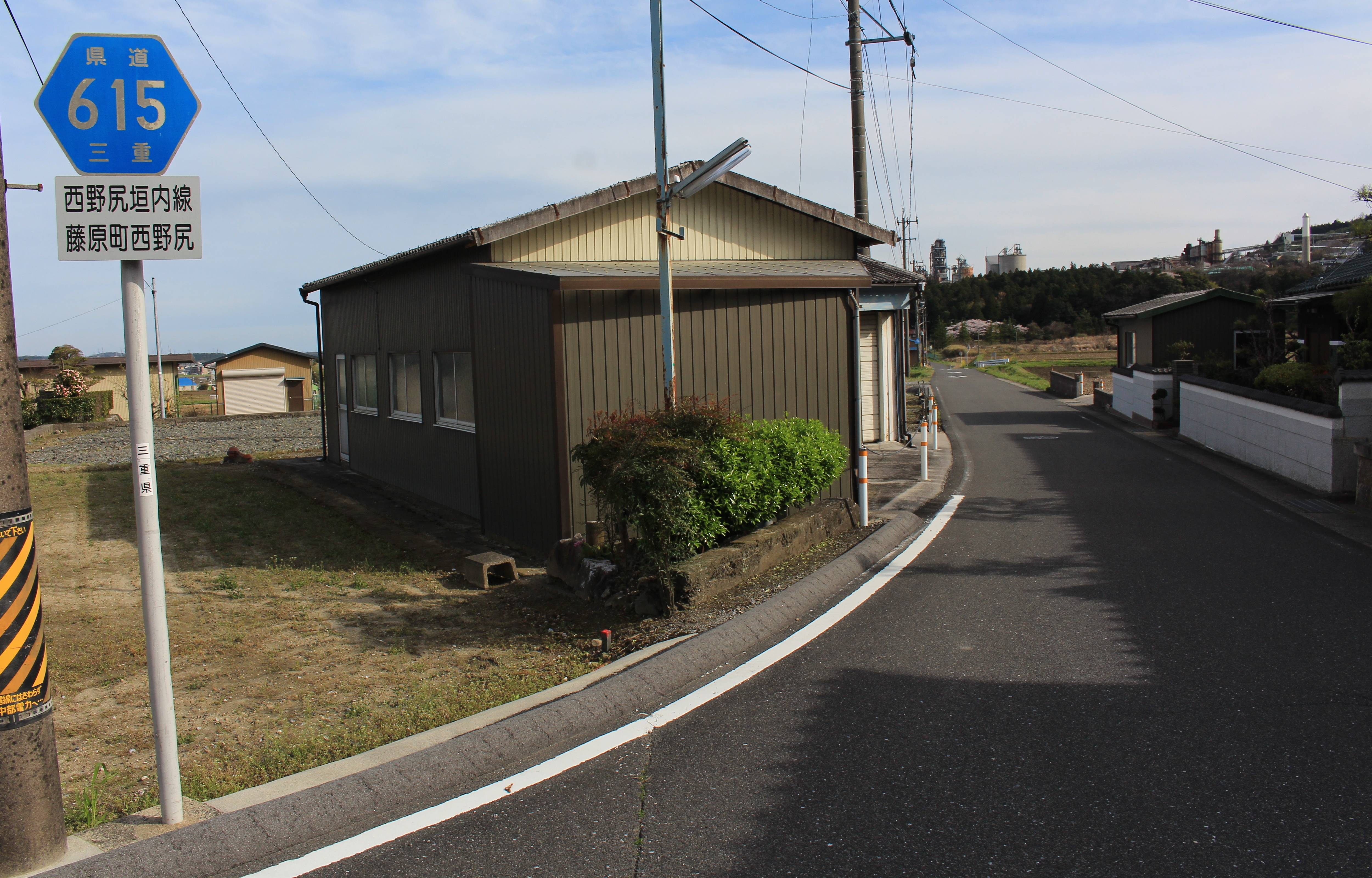 Mie Prefectural Road Route 615 in Nishinojiri, Fujiwara-chō, Inabe, Mie prefecture, Japan.